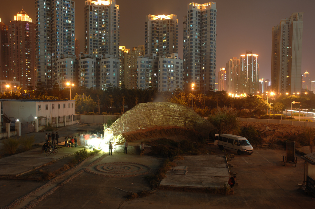 Bug Dome by WEAK! (architects Marco Casagrande, Hsieh Ying-chun, Roan Ching-yueh)in Shenzhen, China 2009.